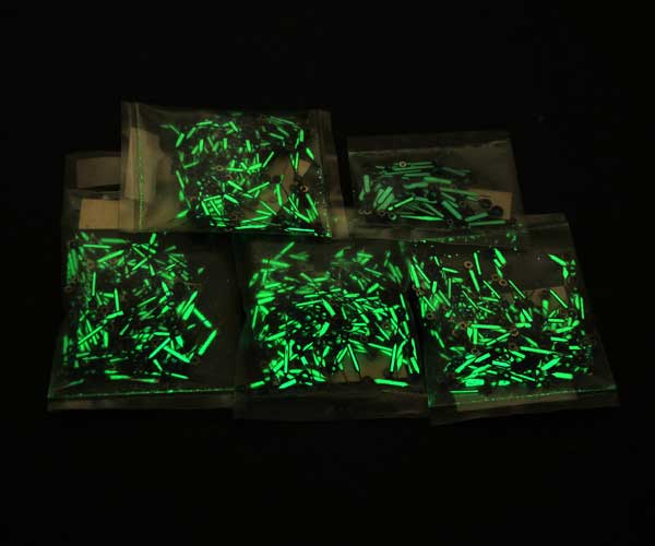 Radium hands from 1940-1950's taken by a friend of mine who live in S. Africa. Theses hands measures about 7000µRem/hr when the meter is 17cm away from the source. An UV source was necessary to activate the phosphor (glowing), because with time, the phosphor vanish and radiations isn't enough to produce light.